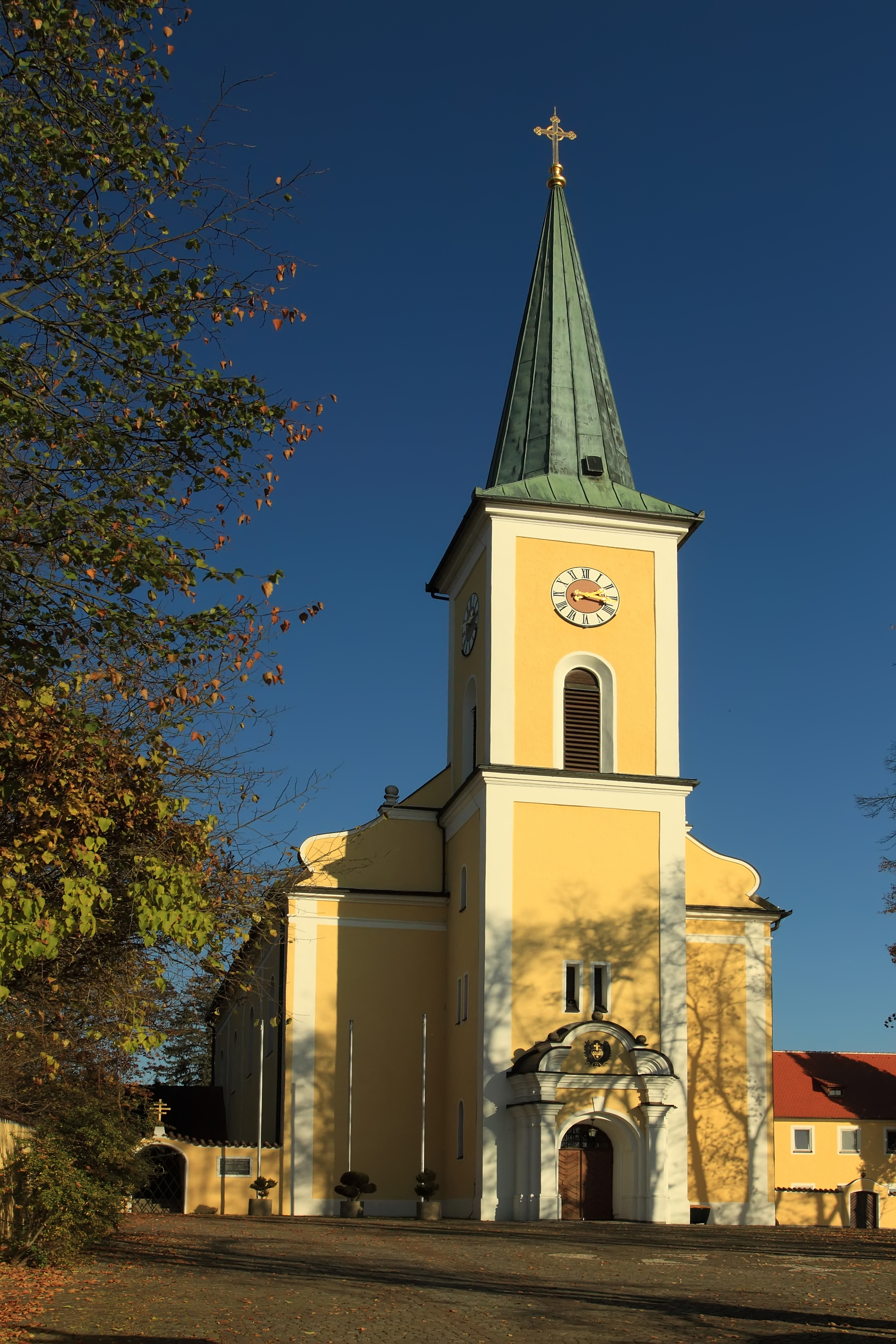 Front view of the Miesbergkirche in Schwarzenfeld, Germany, Bavaria. You see the western front of with the church spire and the main entrance. On the left side you see the entrance to the cemetary and to the rght, the monastery connects.